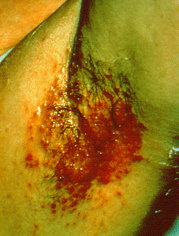 Axillary intertrigo - a pathogenic bacterial growth in the armpit